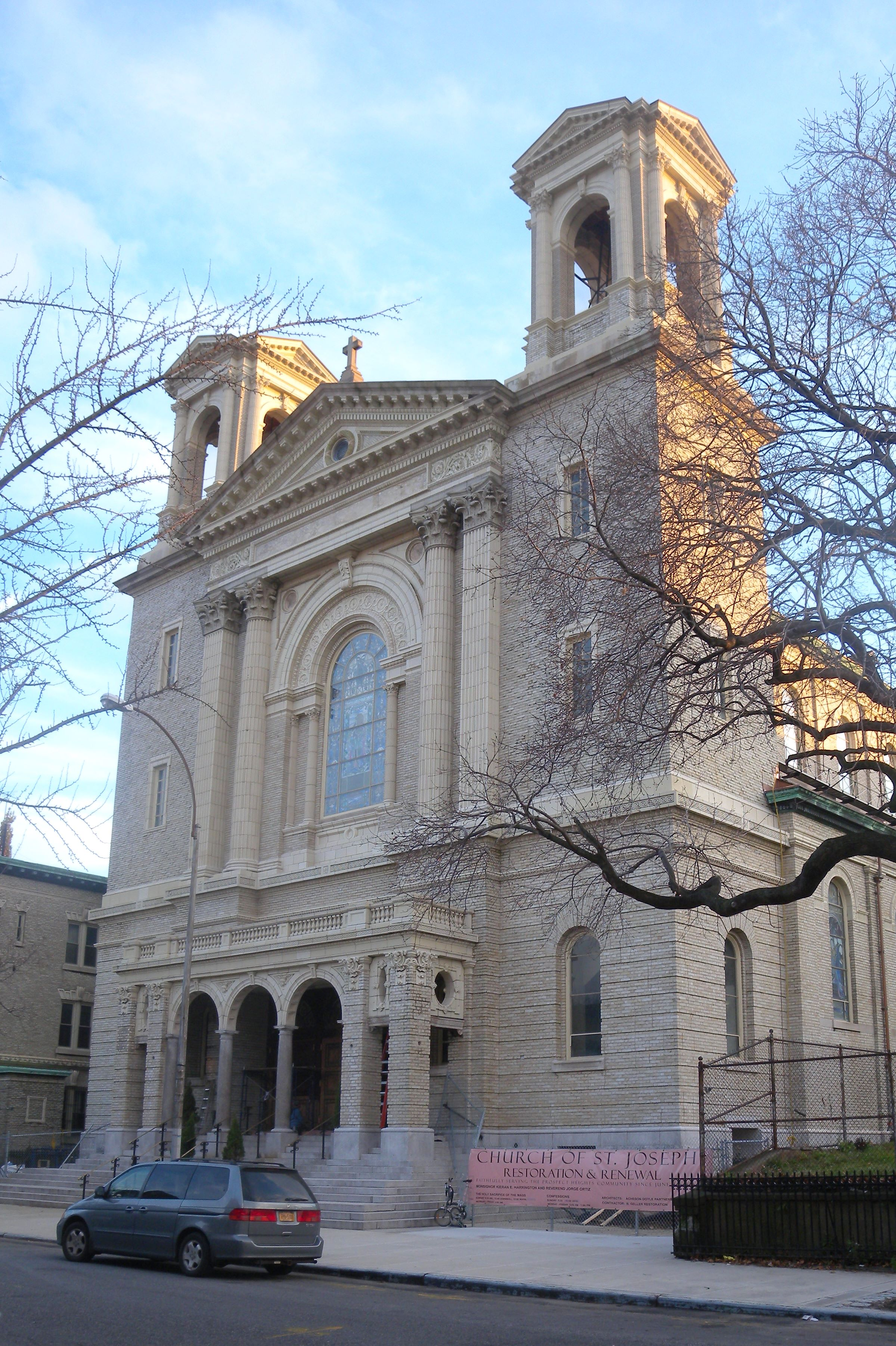 Looking southeast across Pacific Street at St Josephs Church on a mostly cloudy afternoon. Was named co-cathedral in February 2013.CBS News, 3 March 2013